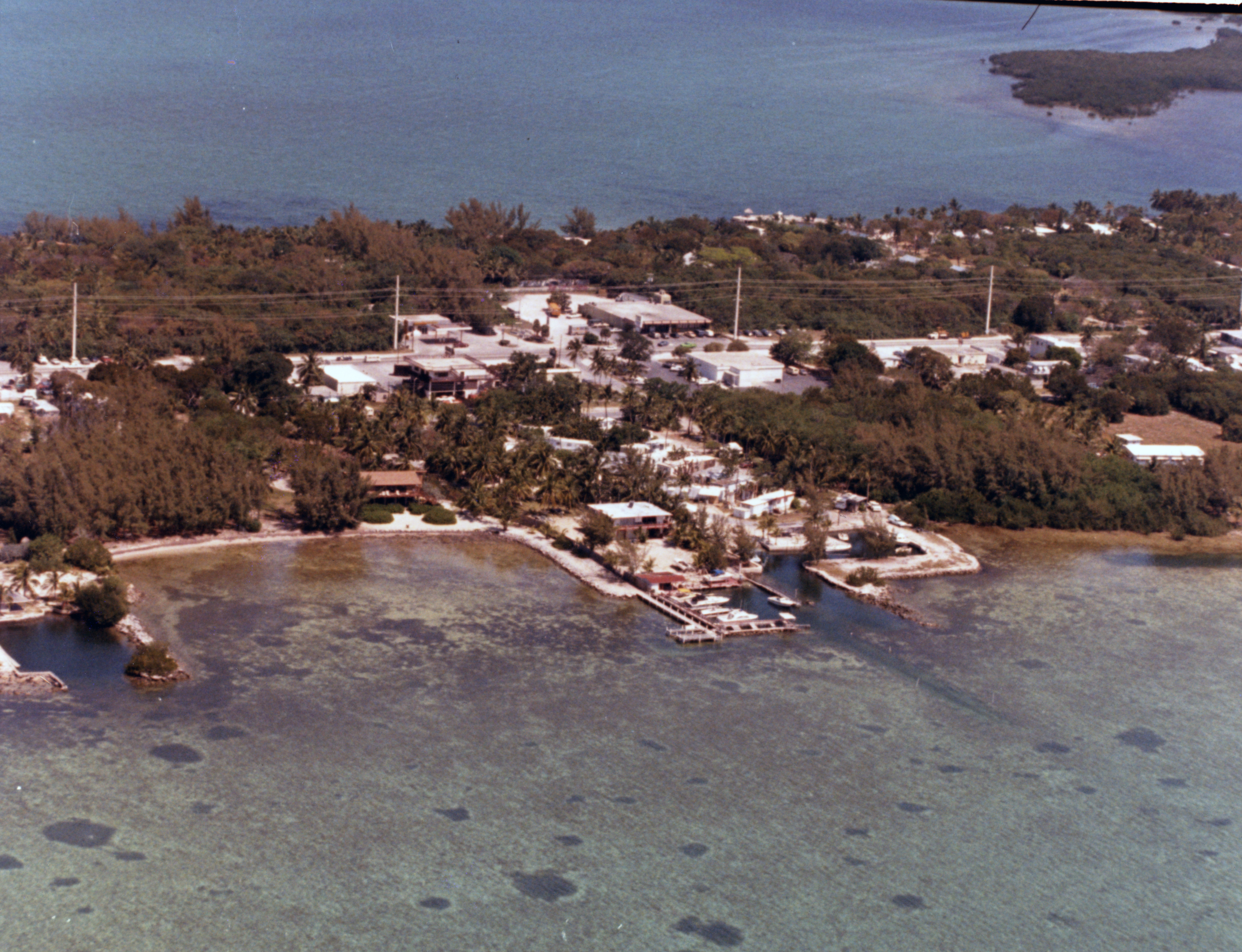 Aerial of Post Office on Upper Matecumbe. Photo taken by the Federal Government on October 7, 1987. From the Wright Langley Collection